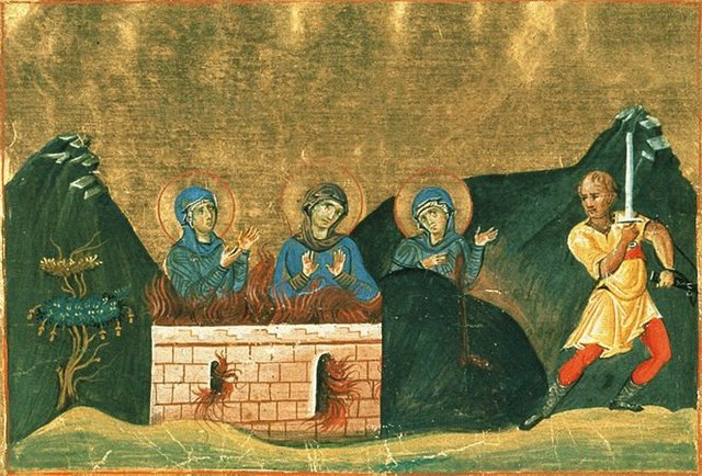 Agapia, Irene, and Chionia from the Georgian translation of Menologion of Basil II. translated into Georgian as ბასილ II-ის მენოლოგიონი (basil II-is menologioni).